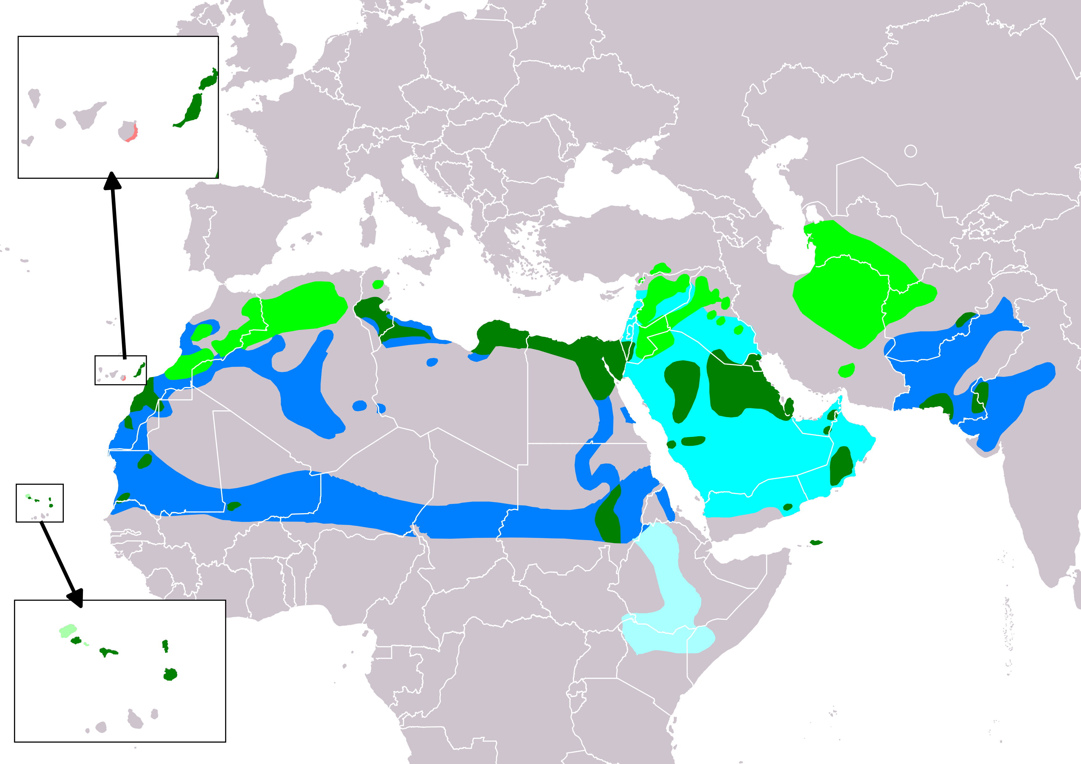 Legend: Extant, breeding (#00FF00), Extant, resident (#008000), Extant, passage (#00FFFF), Extant, non-breeding (#007FFF), Probably extinct (#FF8080), Possibly Extant (resident) (#AAFFAA), Possibly Extant (non-breeding) (#AAFFFF)